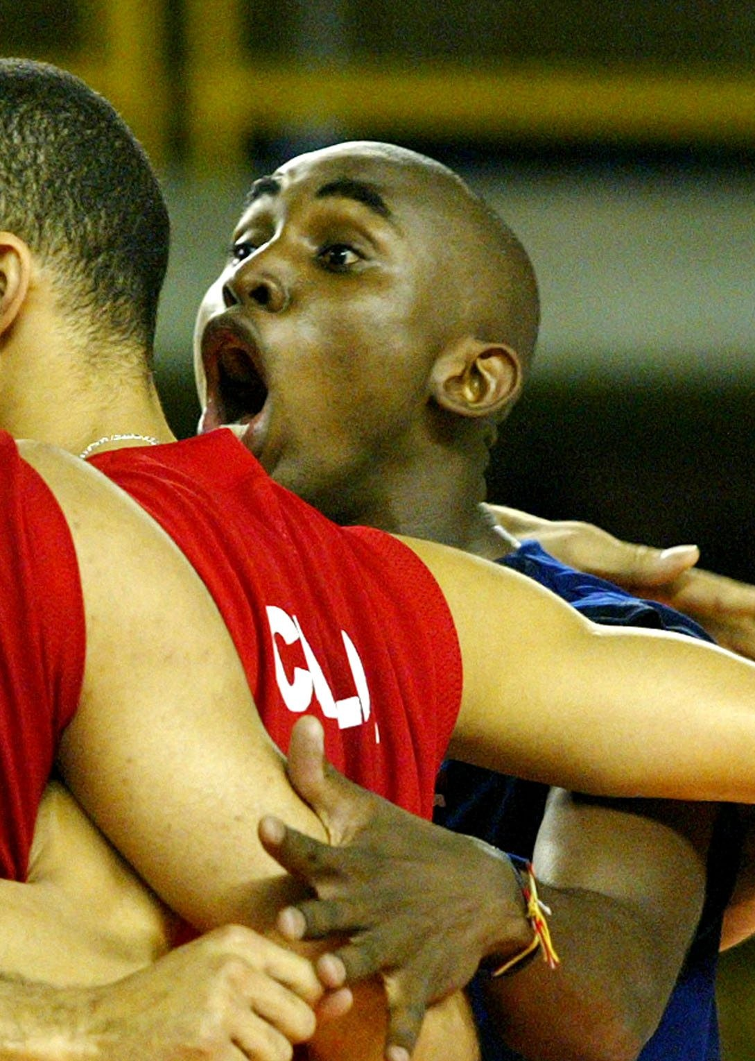 Enderwin Herrera wearing the Venezuela national team short.